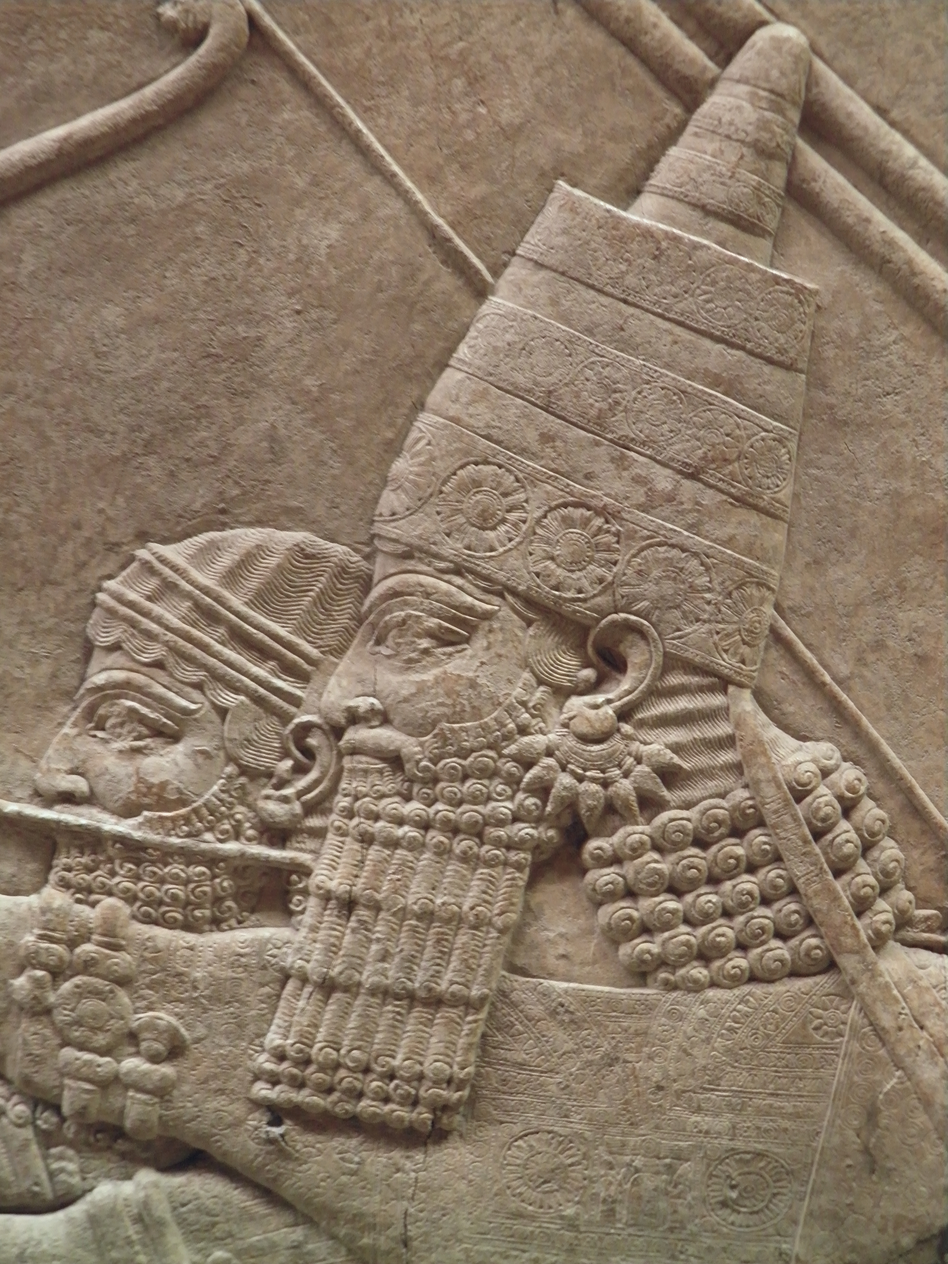 In ancient Assyria, lion-hunting was considered the sport of kings, symbolic of the ruling monarch’s duty to protect and fight for his people. The sculpted reliefs in Room 10a illustrate the sporting exploits of the last great Assyrian king, Ashurbanipal (668-631 BC) and were created for his palace at Nineveh (in modern-day northern Iraq). The hunt scenes, full of tension and realism, rank among the finest achievements of Assyrian Art. They depict the release of the lions, the ensuing chase and subsequent killing.